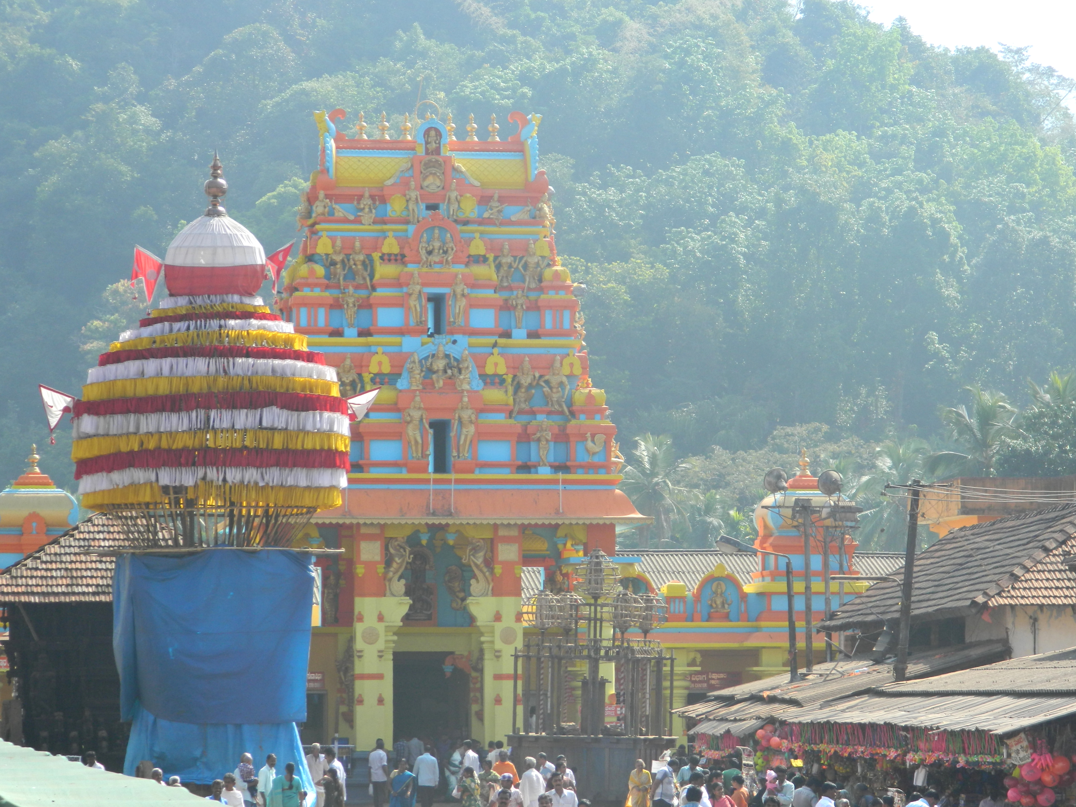 kukke subramanya swamy temple one of the pristine pilgrimage locations in India. Here Lord Subrahmanya is worshipped as the lord of all serpents. The epics relate that the divine serpent Vasuki and other serpents found refuge under Lord Subrahmanya when threatened by Garuda.